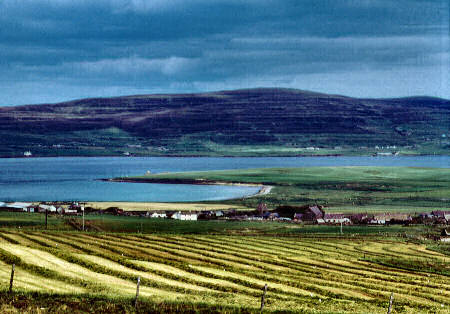 View over Evie, Aikerness to Rousay / Orkney original copyright 2003-2006 Team SchottlandPortal / Wolfgang Schlick (aka Islandhopper) shot taken in 2003 published before: Fotogallery [1] (larger version) from the authors archive Islandhopper 14:24, 30 July 2006 (UTC)